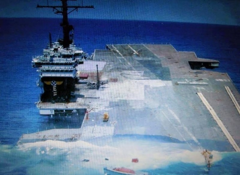 Declassified Image of USS America Sinking by the Bow After Scuttling Charges Were Used After Four Weeks of Damage Weapon Tests